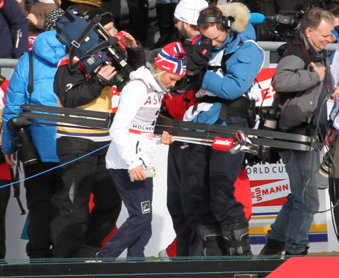 Holmenkollen 30 km women's Nordic Cross-country ceremony. Oslo, Norway, March 11, 2012. Therese Johaug (bronze).